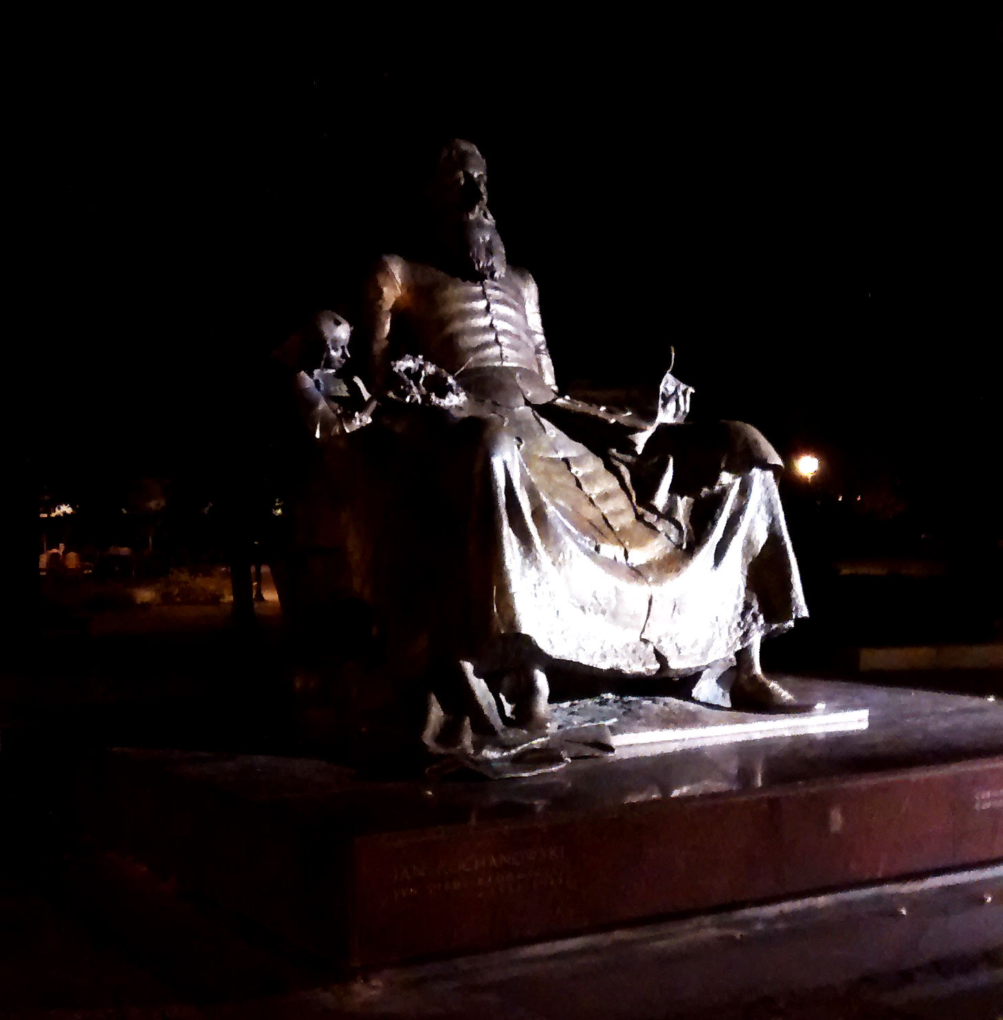 Jan Kochanowski monument in Radom, Poland by night